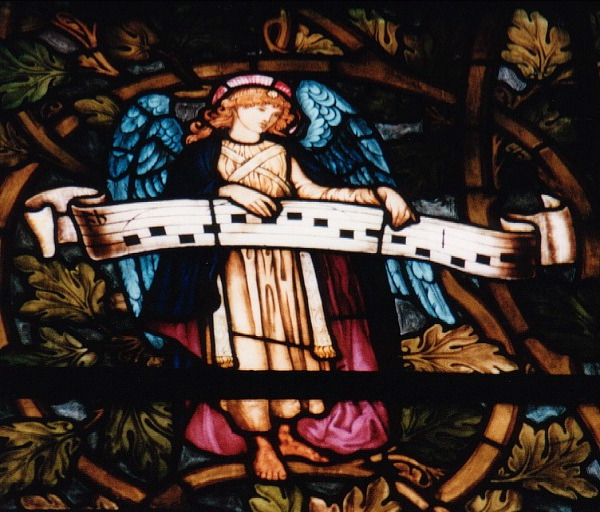 Detail from "The Worship of the Shepherds" window at Trinity Church, Boston, designed by Edward Burne-Jones and executed by William Morris, 1882